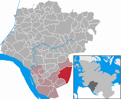 This map shows the area of the municipality Horst (Holstein) in the Kreis (district) Steinburg, Schleswig-Holstein, Germany.